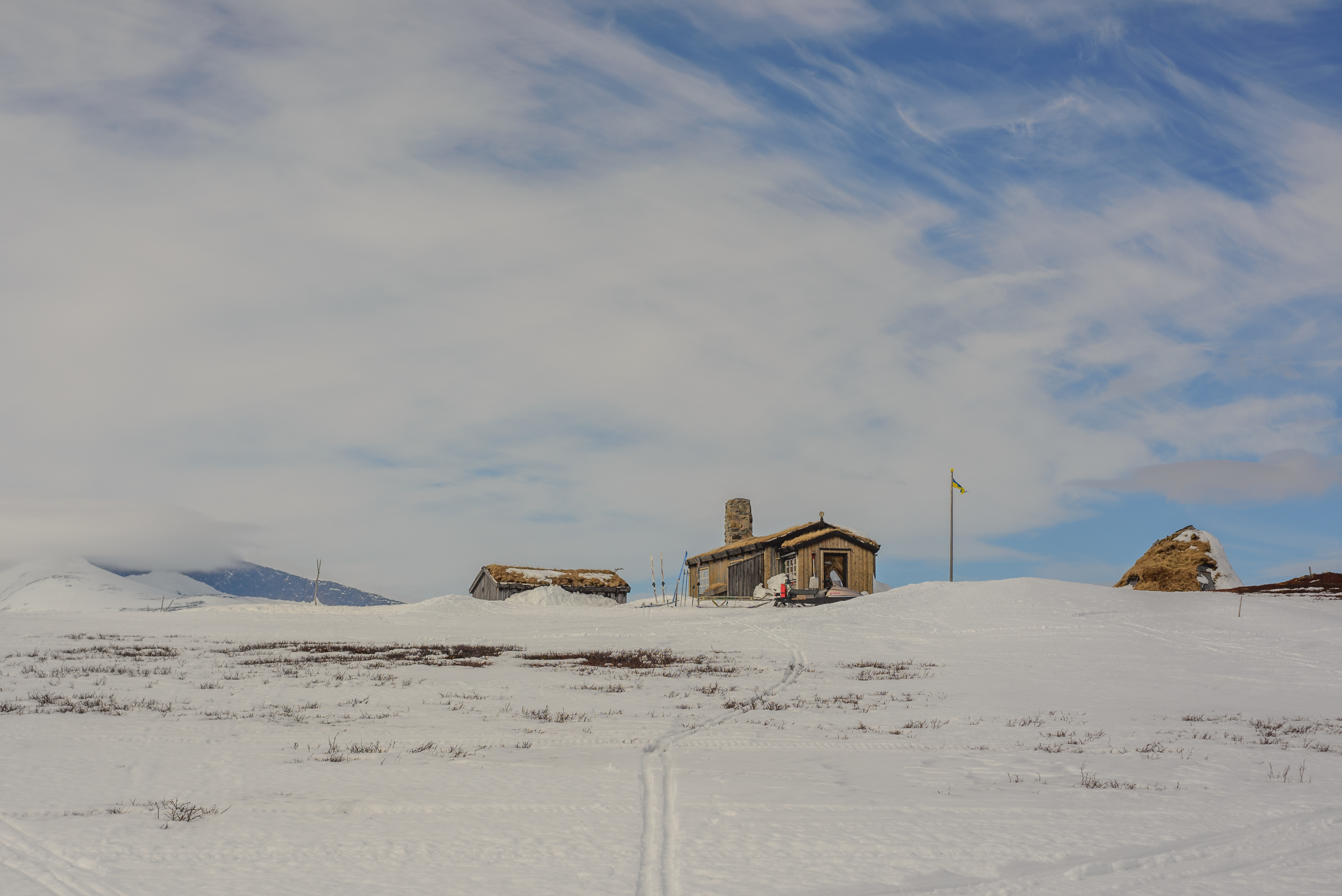 Himmelsrasta is a mountain cabin built by swedish artist Paul Jonze in the 1940s. Between Ljungdalen and Mount Helags, (Berg municipality, Jämtland county